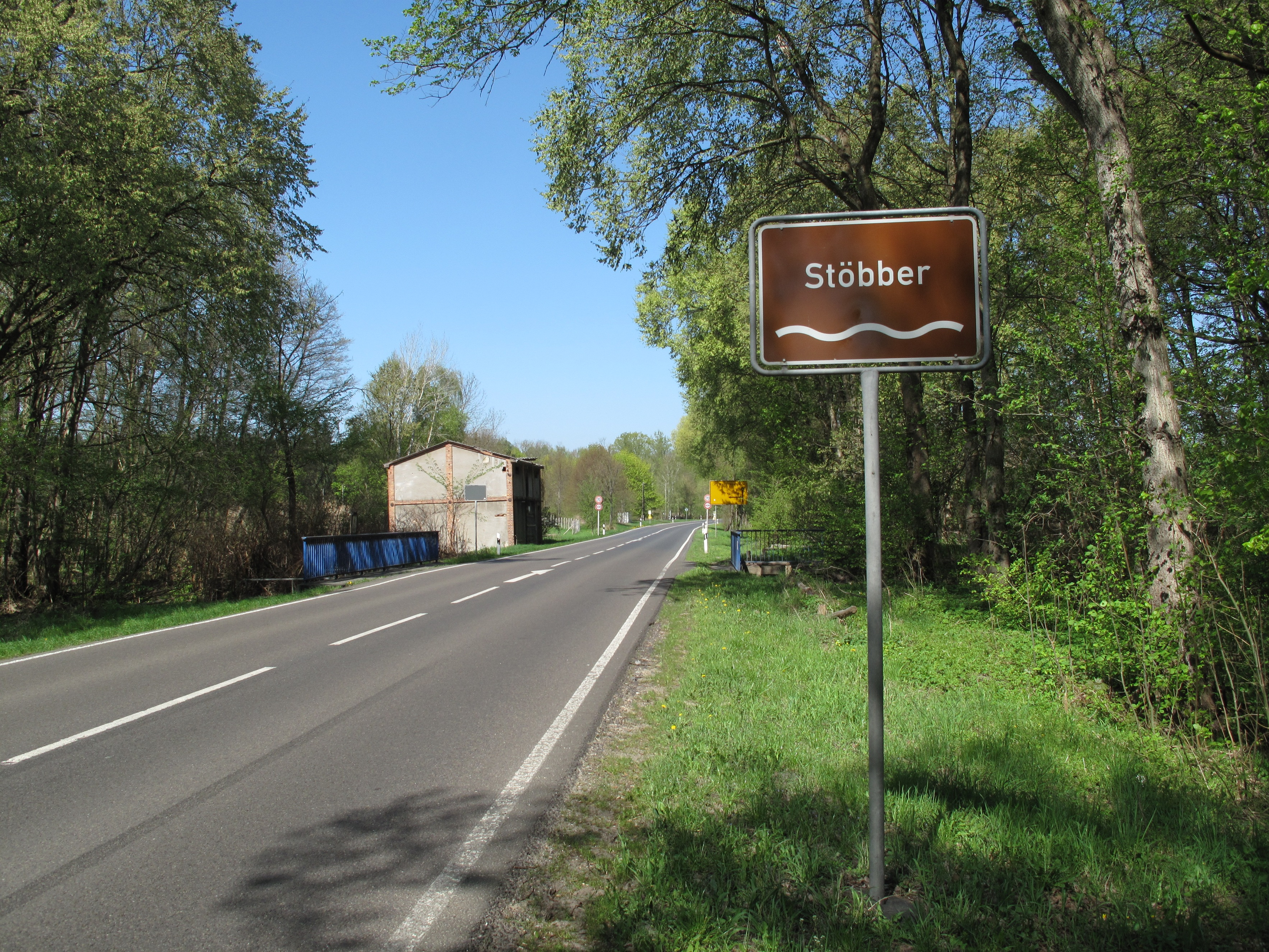 Stobber-sign at the former Damm-Mühle (water mill) in Altfriedland, a village of the municipality Neuhardenberg. The Stobber (also called Stöbber) is the central river in the hill country „Märkische Schweiz“ and the Märkische Schweiz Nature Park, Brandenburg, Germany. The stream runs over a distance of 25 kilometers from the lowland moor and source area Rotes Luch towards the northeast through Buckow to the Oderbruch. The Stobber flows at Neuhardenberg to the „Friedländer Strom“, whose waters run over some canals to the Oder River → Baltic Sea. On a roughly 13 kilometer long route of its course there is designated the nature protection area „Naturschutzgebiet Stobbertal“.